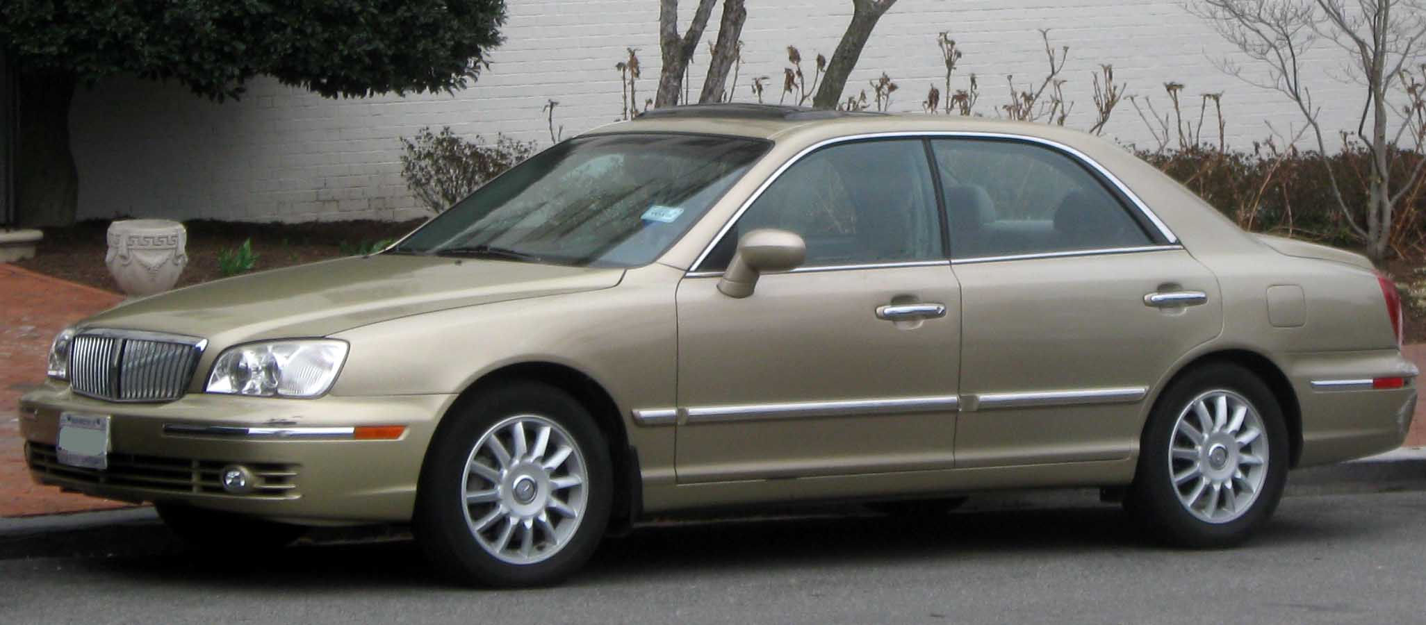 2004-2005 Hyundai XG350 photographed in Washington, D.C., USA.